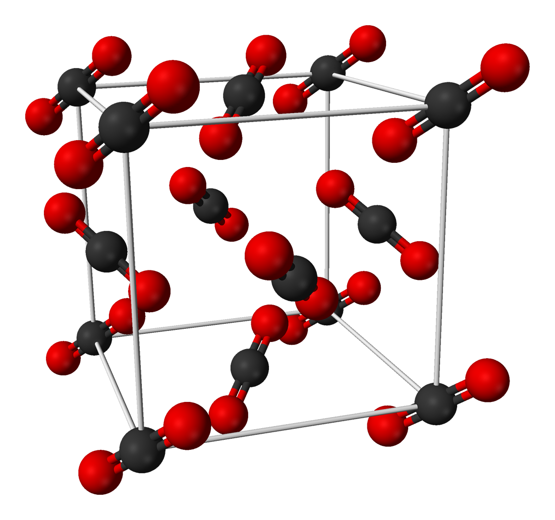 Ball-and-stick model of the unit cell of solid carbon dioxide (dry ice), CO2. Crystal structure data from AMCSD.